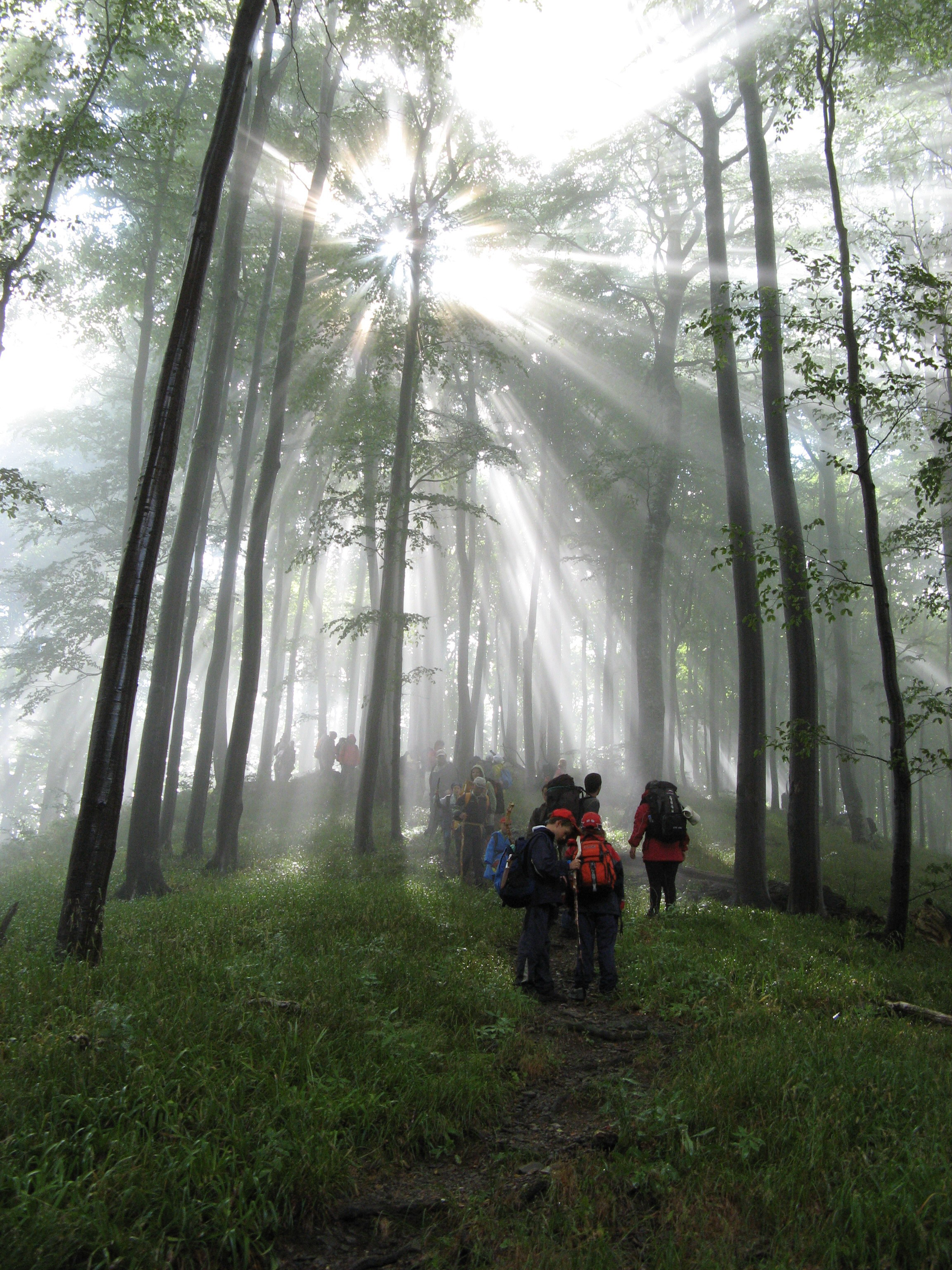 Sun Rays in Balkan